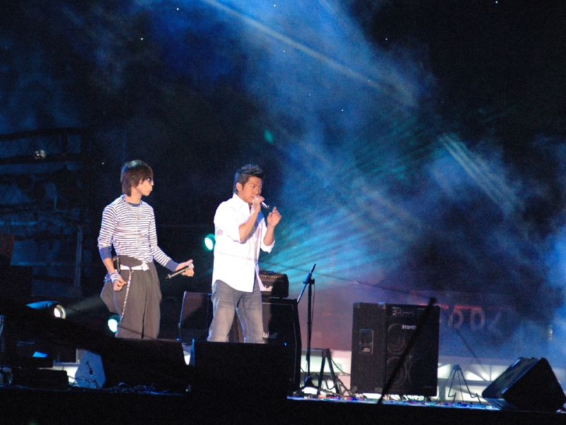 Chinese famous pop singers Yu Quan performing on the stage of Chaoyang International Pop Music Festival. Since the stage is very far from my camera and I was not allowed to be closer, I could not take portraits:(